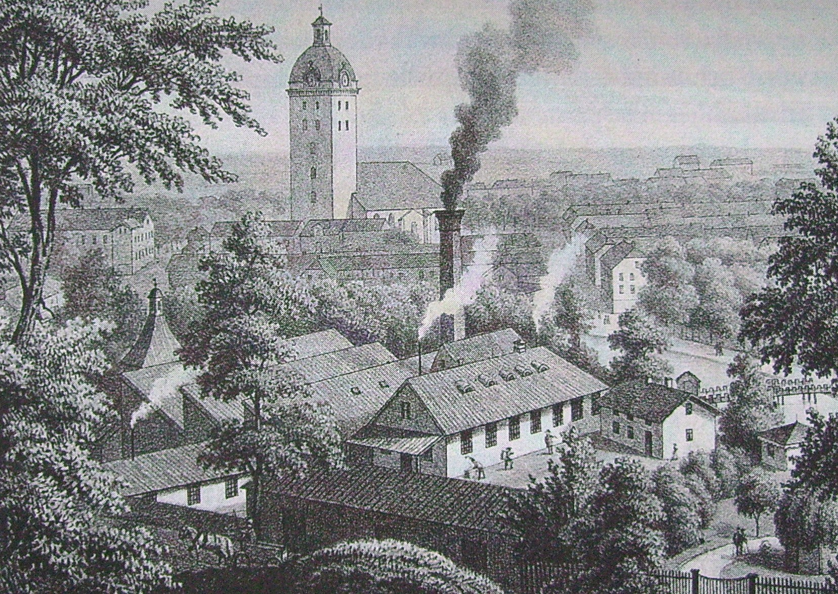 Picture of Borås väveri